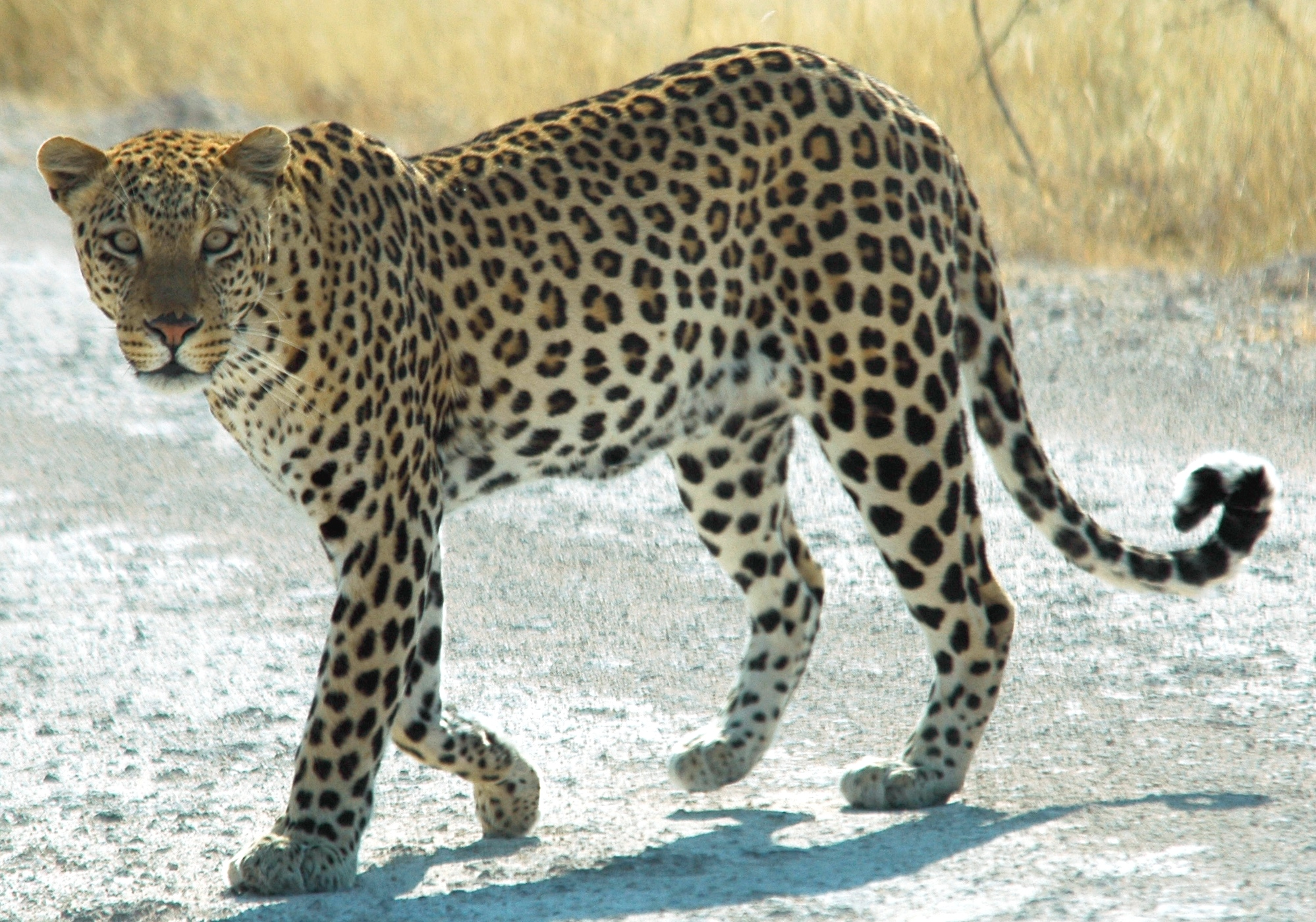 African Leopard in Etosha National Park, Namibia.